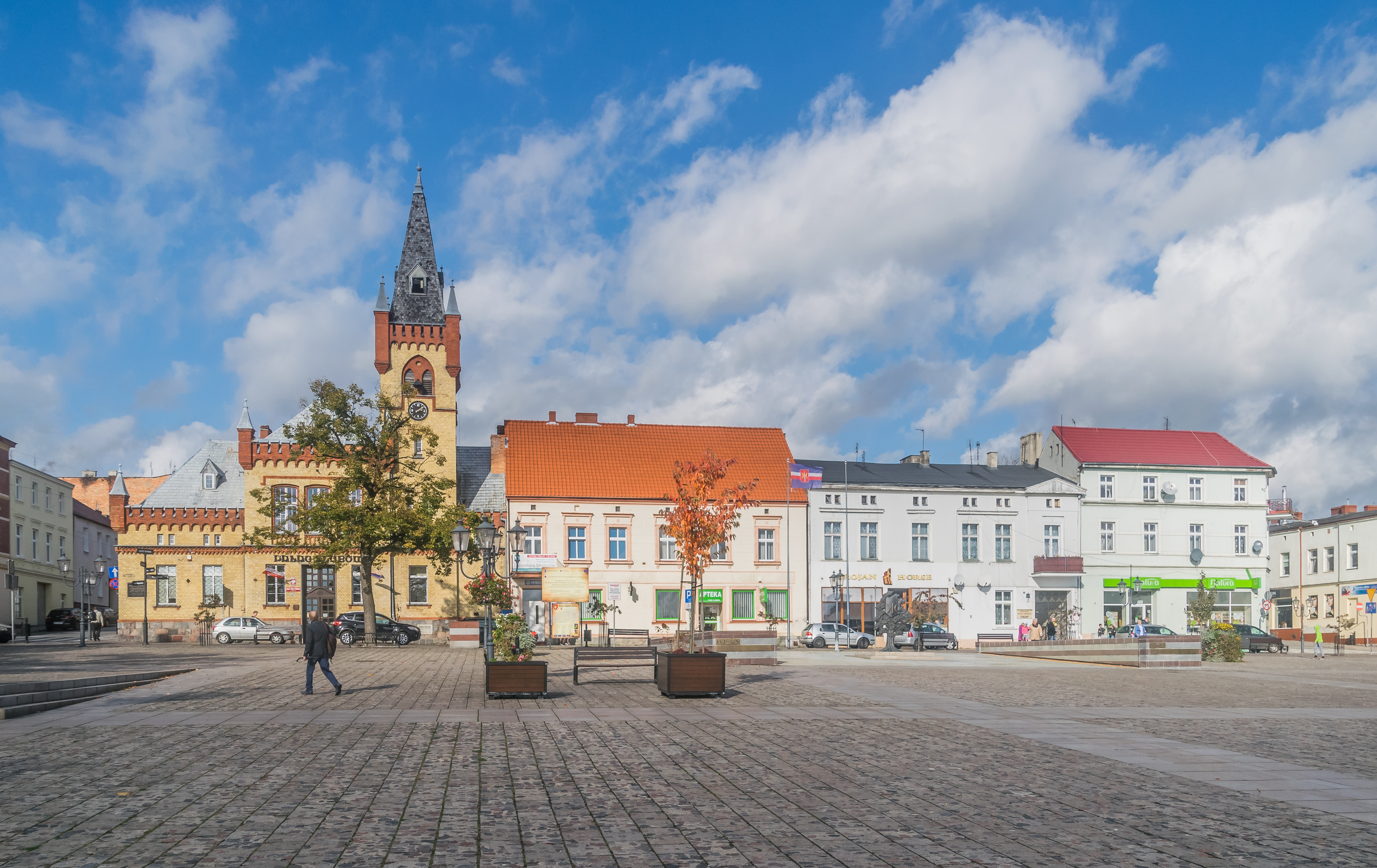 Northern frontage of the Market Square in Świecie, Kuyavian-Pomeranian Voivodeship, Poland